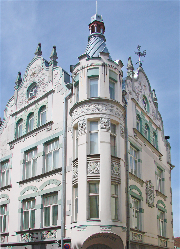 Art Nouveau building designed by Jacques Rosenbaum at Pikk 23/25, Tallinn